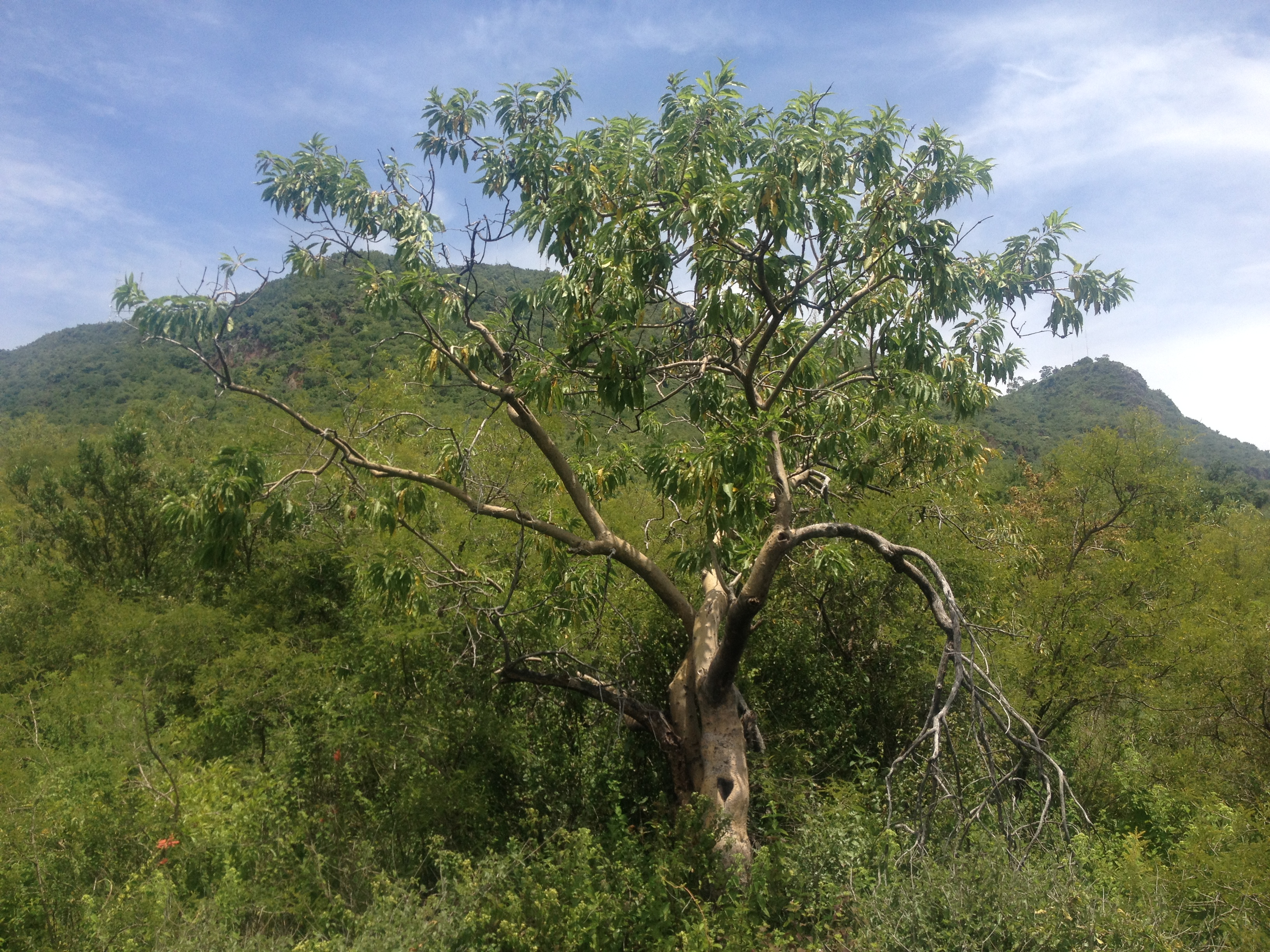 Habitat picture of Ipomoea murucoides, taken in Ocoyucan, Puebla, Mexico. This photo was first published on iNaturalist